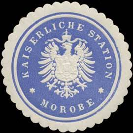 Sealing stamp Title: K. Station Morobe Description: Place: size: 4 cm